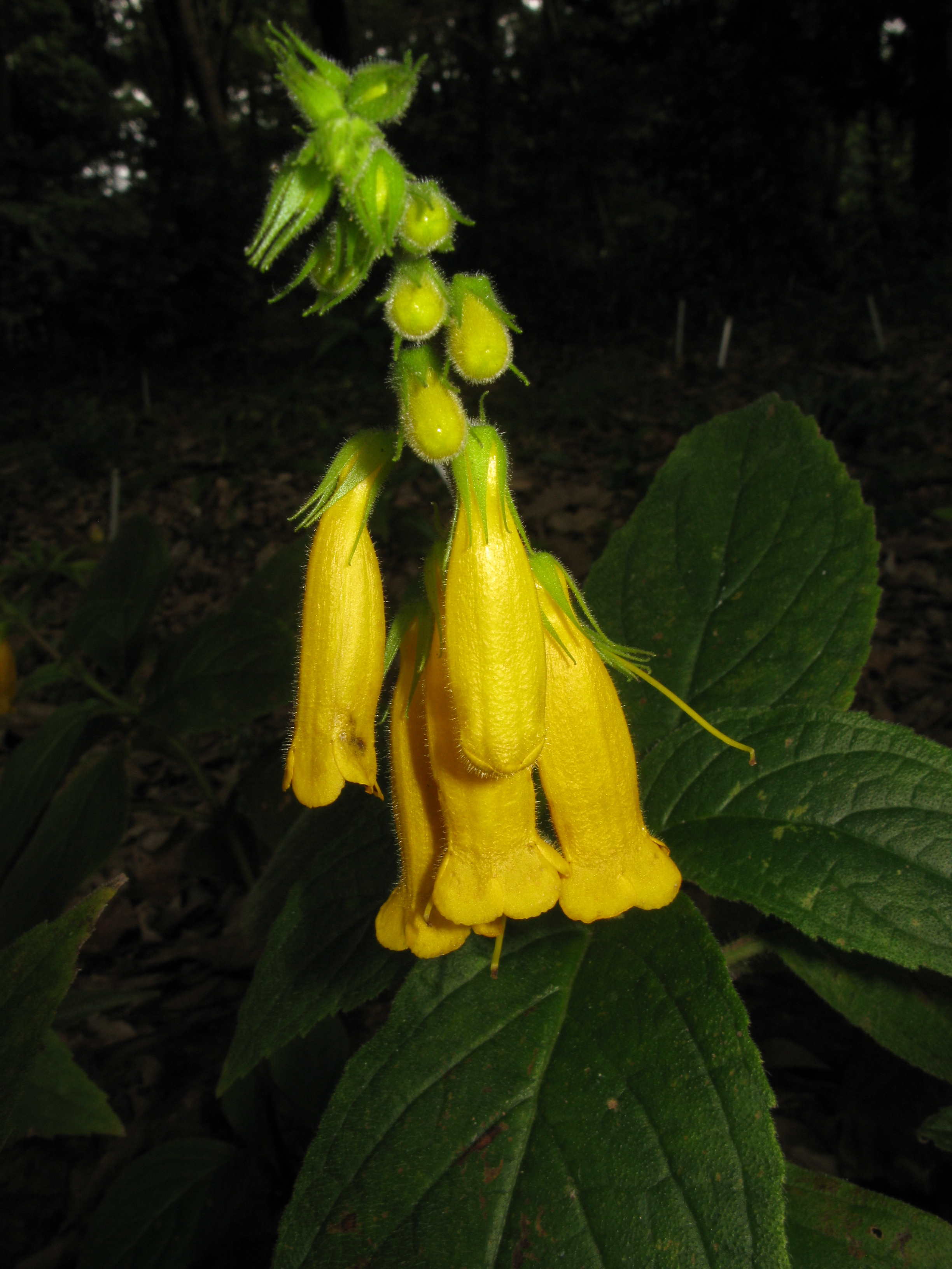 Titanotrichum oldhamii, Tsukuba Botanical Garden, Ibaraki pref., Japan